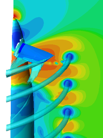 A computational fluid dynamics-generated image showing the wake of a propeller. Color represents vorticity.